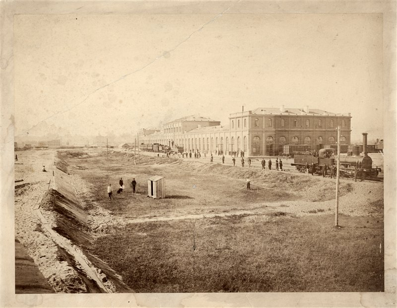 Vilnius train station 1870-1880